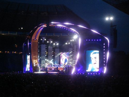 Robbie Williams live in Berlin, own work